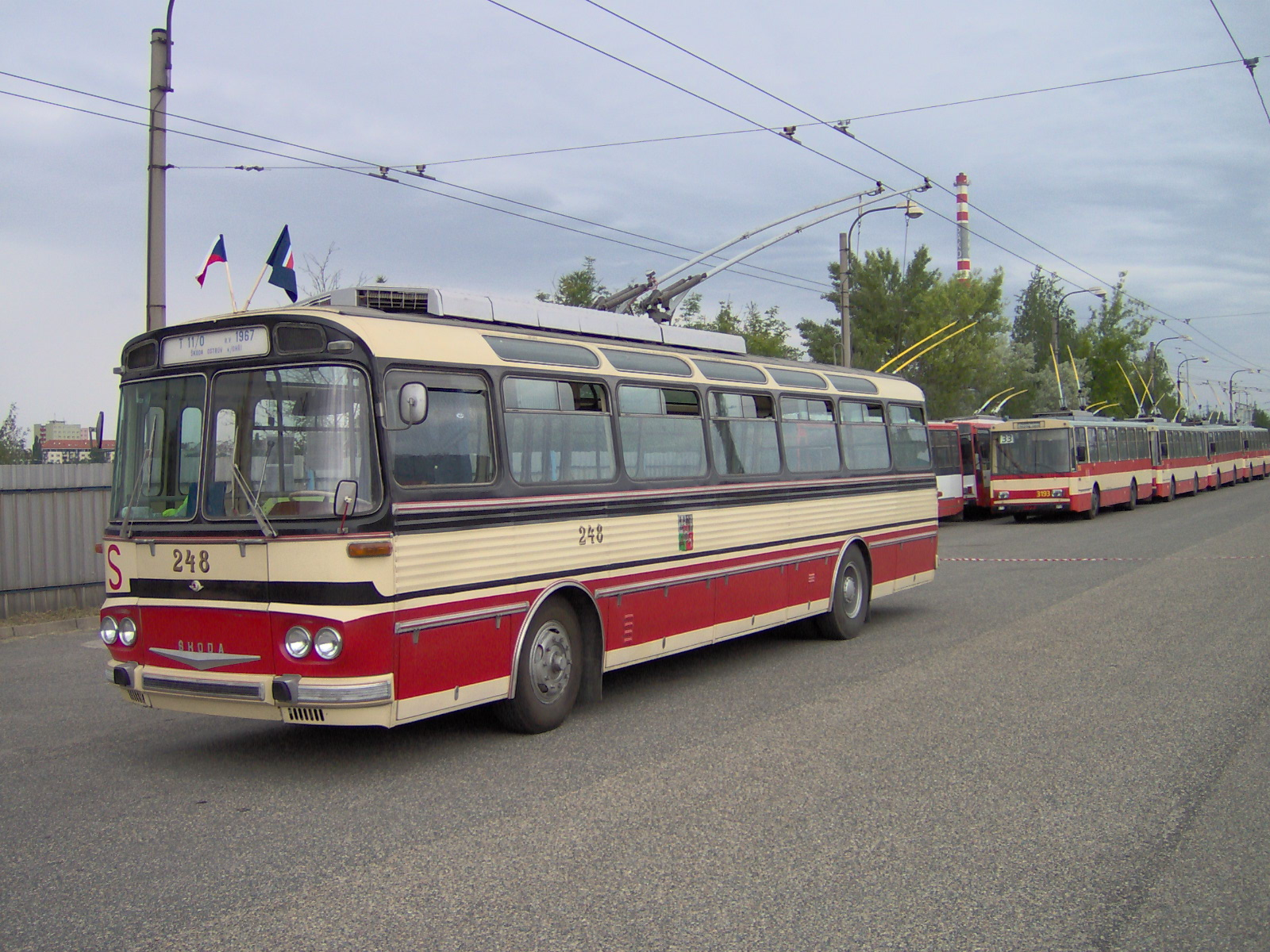 Historical Škoda T 11 trolleybus in Brno (the car come from Plzeň, now possession of Technical museum Brno)